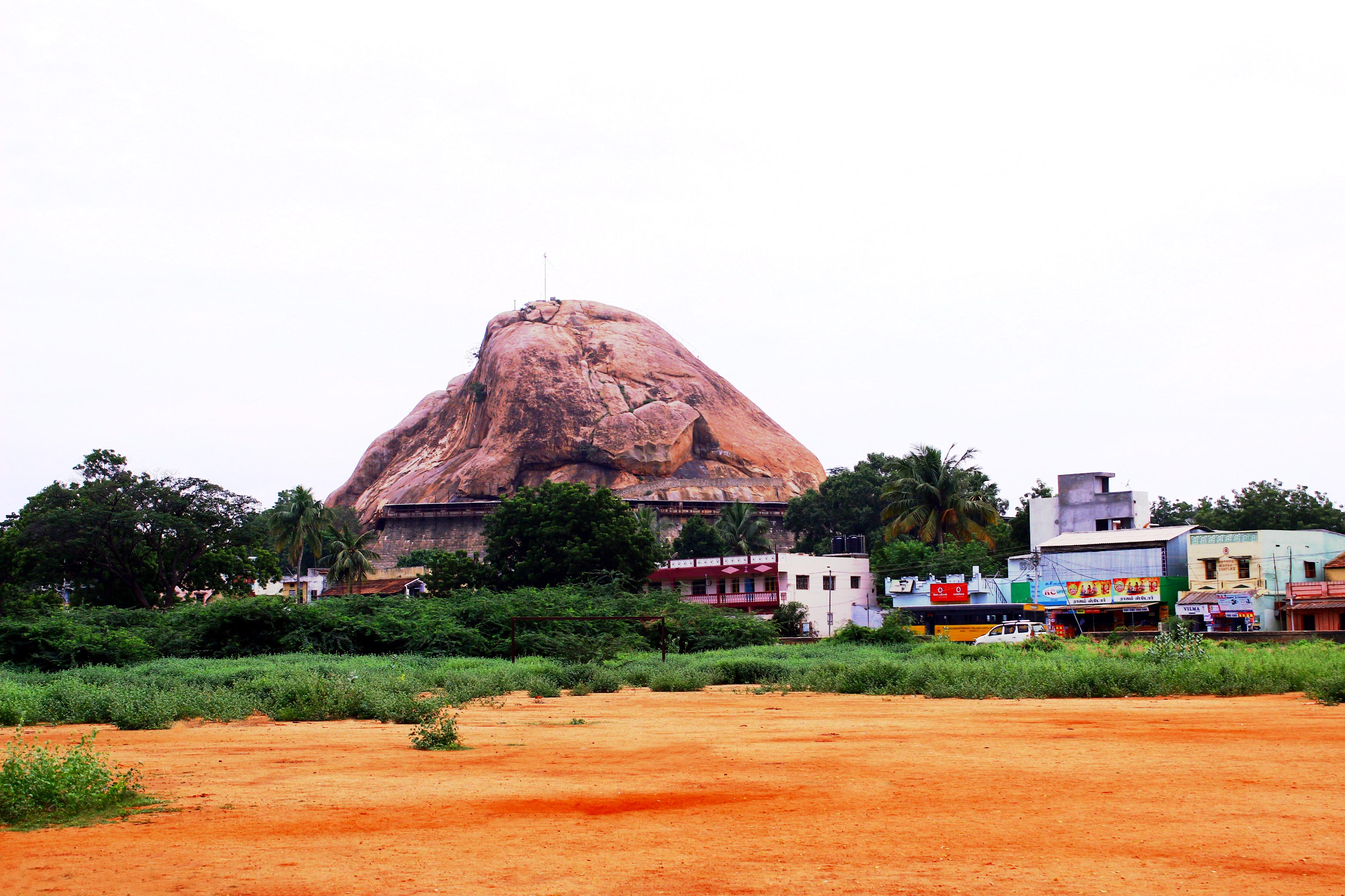 View of Golden Rock from behind railway school